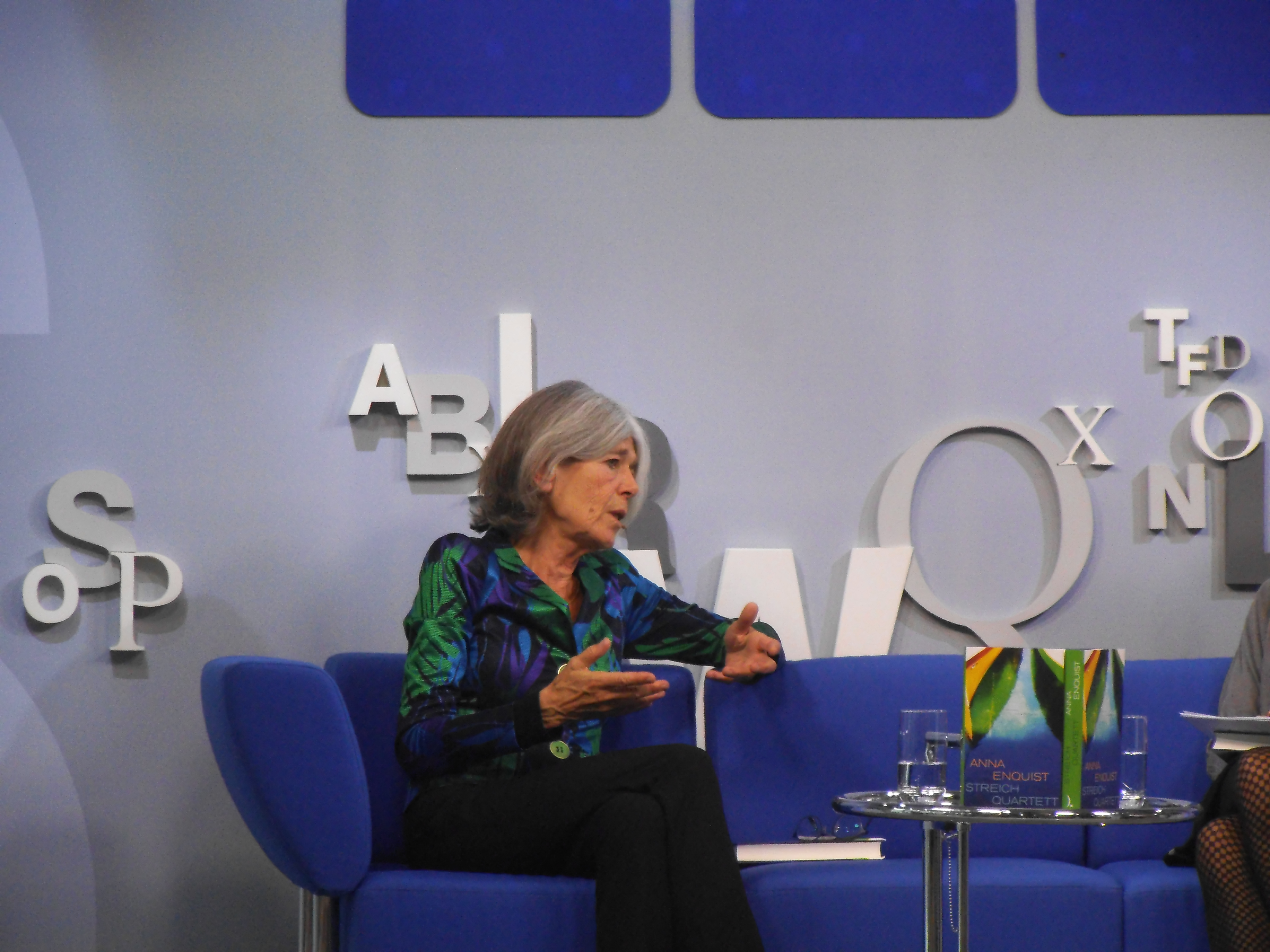 Anna Enquist, Frankfurt Book Fair 2015, presenting her book "Streichquartet" (Kwartet).